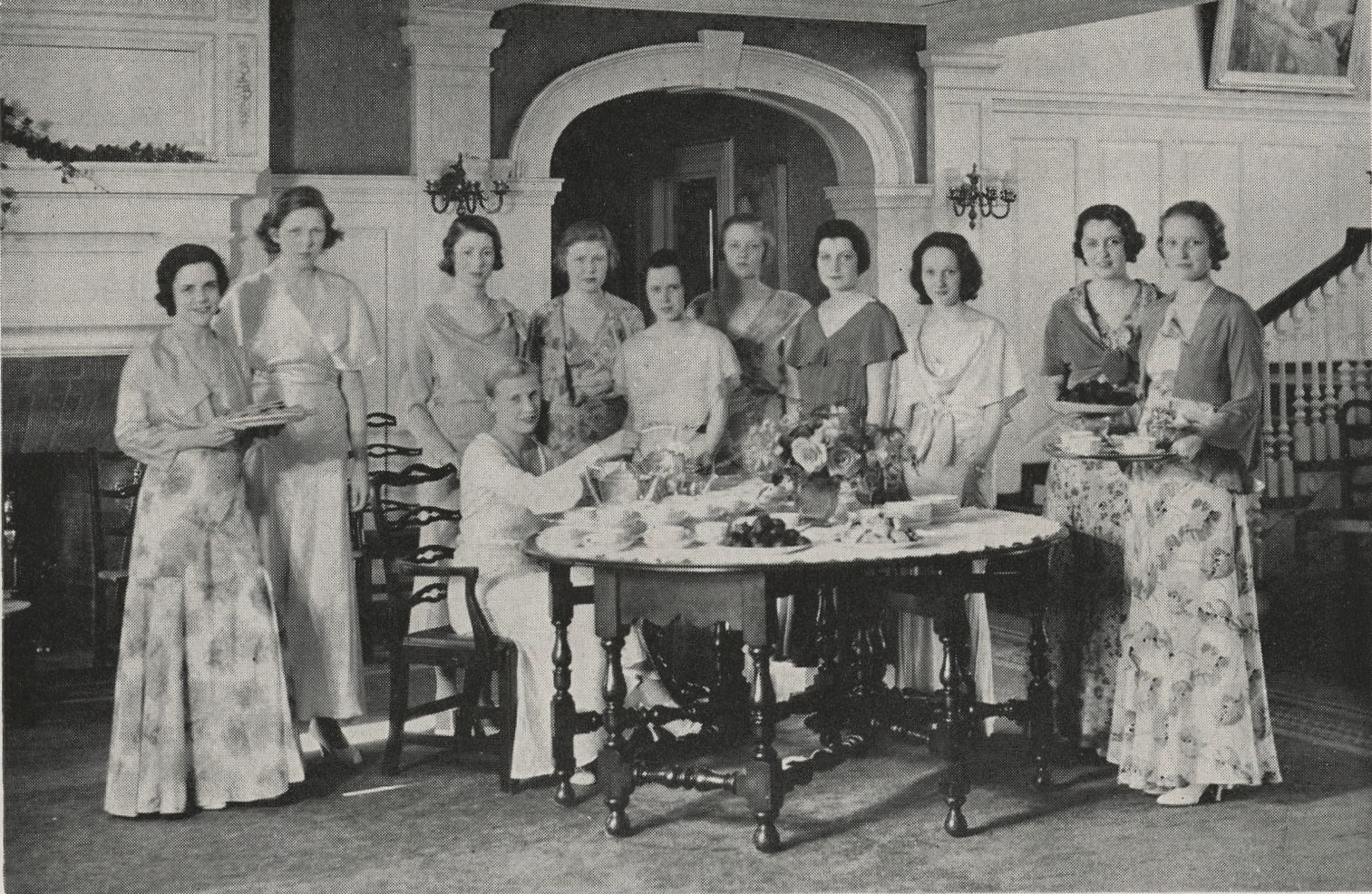 From a 1932 Briarcliff Junior College yearbook, in the archives of the Briarcliff Manor-Scarborough Historical Society.